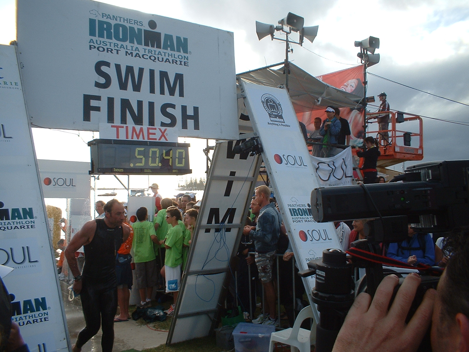 Ironman Australia swim finish